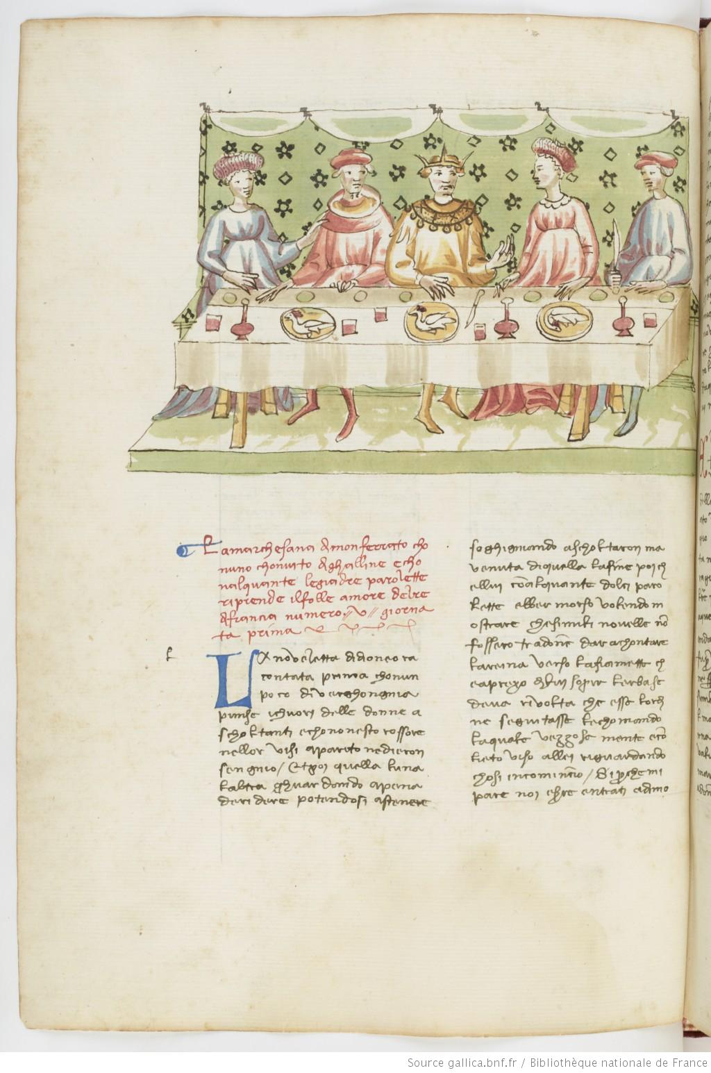 BNF MS Italien 63, fol. 22v: Boccaccio, Decameron: the story of the marchioness of Montferrat. First Day, Fifth Novella.